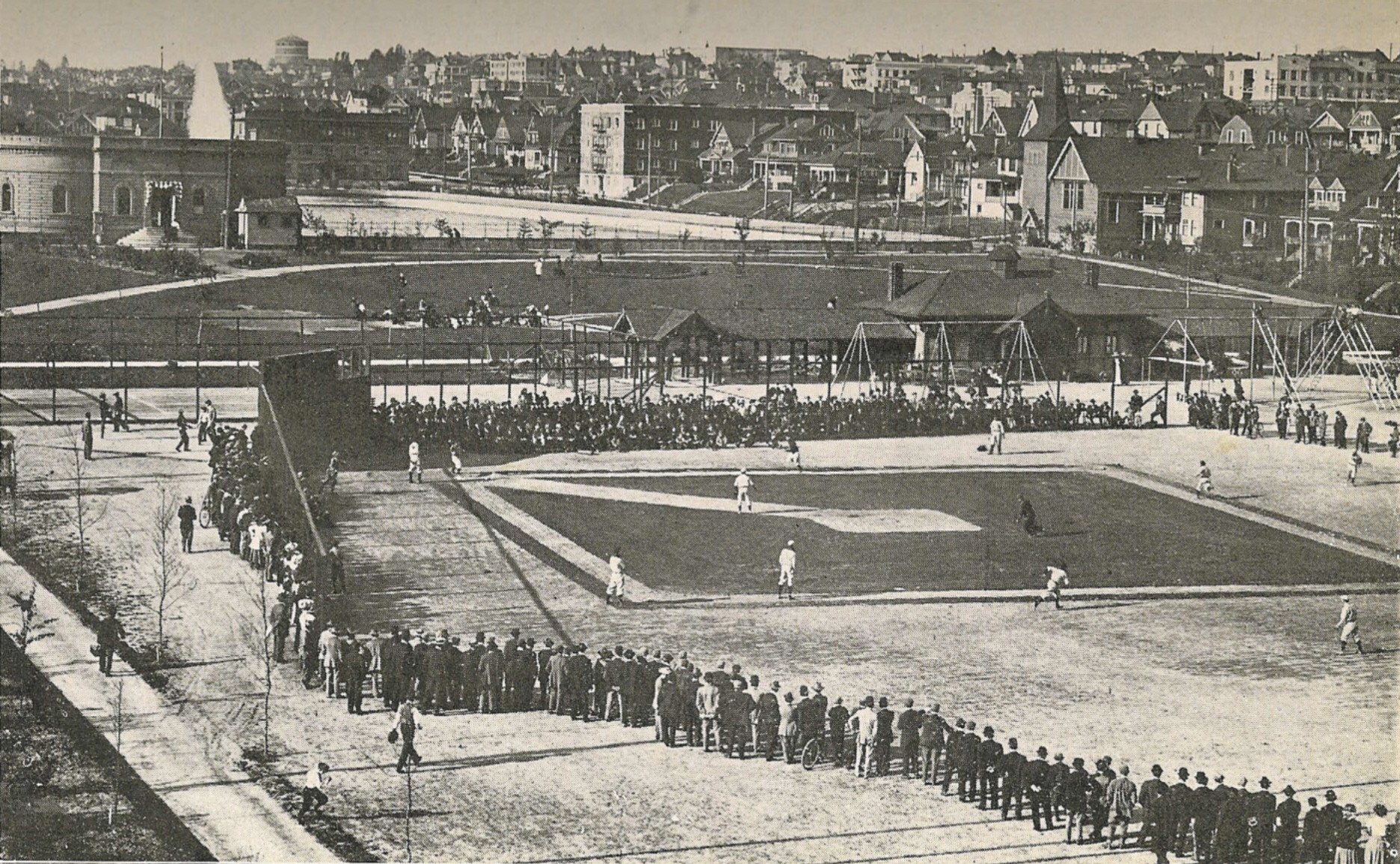 Description in the published source (1919): "Lincoln Playfield". The view is on Capitol Hill, Seattle, Washington. The point of view is from a high window or a roof on the south side of E. Pine Street, looking roughly north by northeast. The park is now (2007) Cal Anderson Park. The reservoir in the near background was covered in 2006, but it is still there underground, and retains the Lincoln name. The building at left is still there, as are a few others, probably most notably the water tower on the horizon (about 20% across from the left), which is in Volunteer Park. The church at right also survives; it is the German United Church of Christ, 1107 E Howell Street. I believe that both of the apartment buildings at the far corner of the park are also still there, and it wouldn't surprise me if some of the private homes are still there, or were until quite recently. The reservoir and playfield have status as city landmarks.